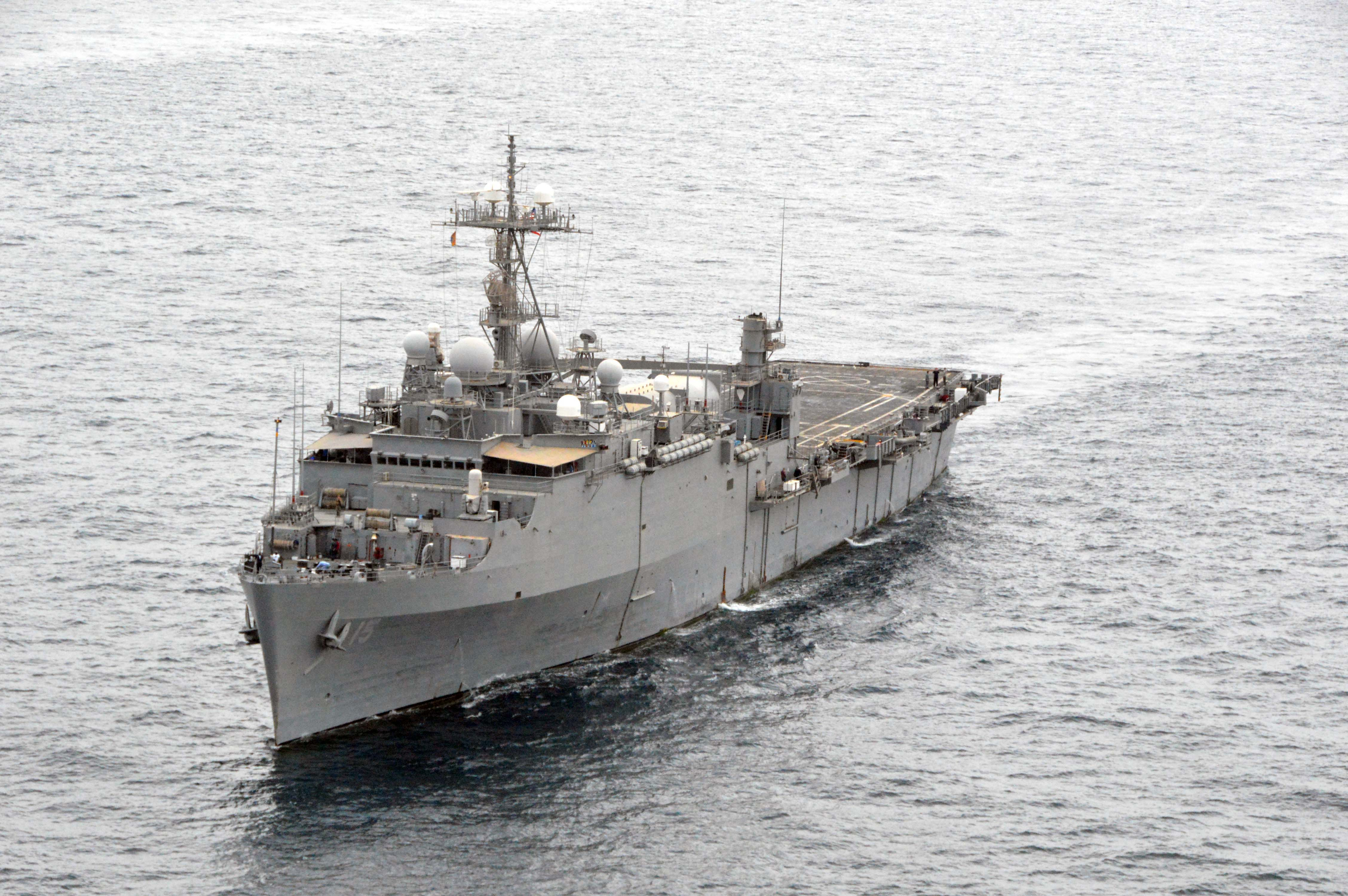 The U.S. Navy Afloat Forward Staging Base (Interim) USS Ponce (AFSB(I)-15) underway in the Arabian Gulf on 26 April 2013. Formerly designated as an amphibious transport dock ship (LPD), Ponce was recently converted and reclassified to fulfill a longstanding U.S. Central Command request for an Afloat Forward Staging Base to be forward deployed to the U.S. 5th Fleet area of responsibility.